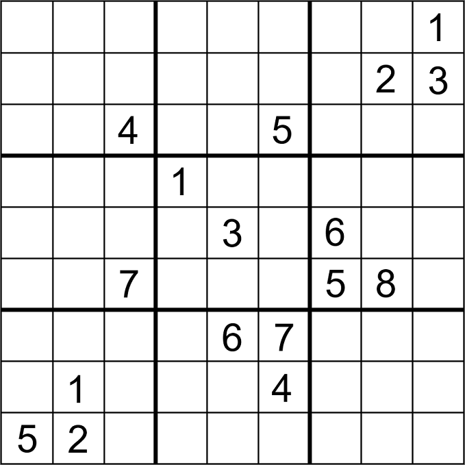 A 17-clue Sudoku with diagonal symmetry. It is attributed to RedEd, who found it from a search of transformations of puzzles in a database by Gordon Royle.